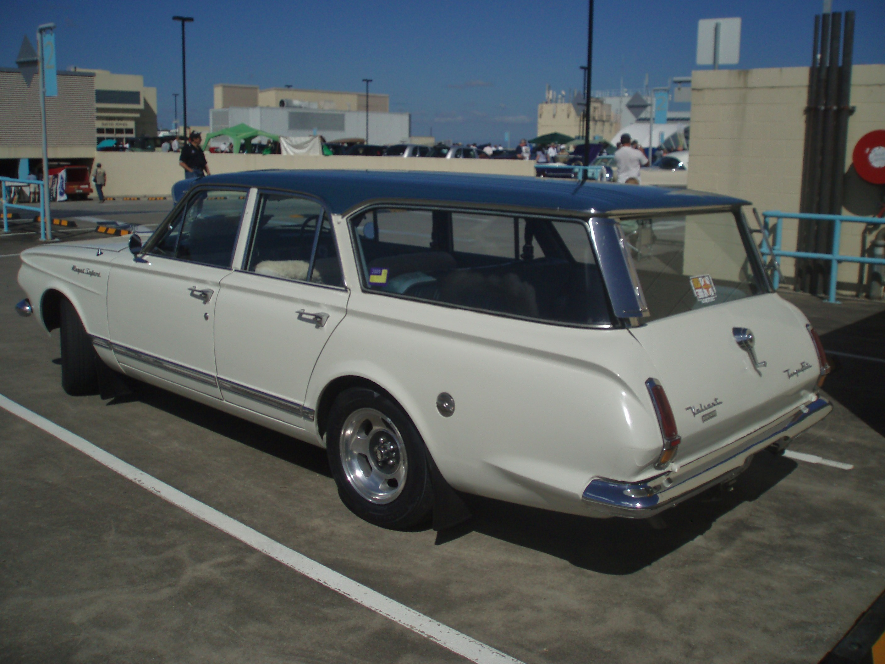 1963 Chrysler AP5 Valiant Regal Safari station wagon. This is one of the earliest AP5s built, due to the windscreen wipers having a left hand drive sweep pattern. Taken at the 2009 New South Wales All American Day, held at Castle Towers Shopping Centre, Castle Hill, Sydney.